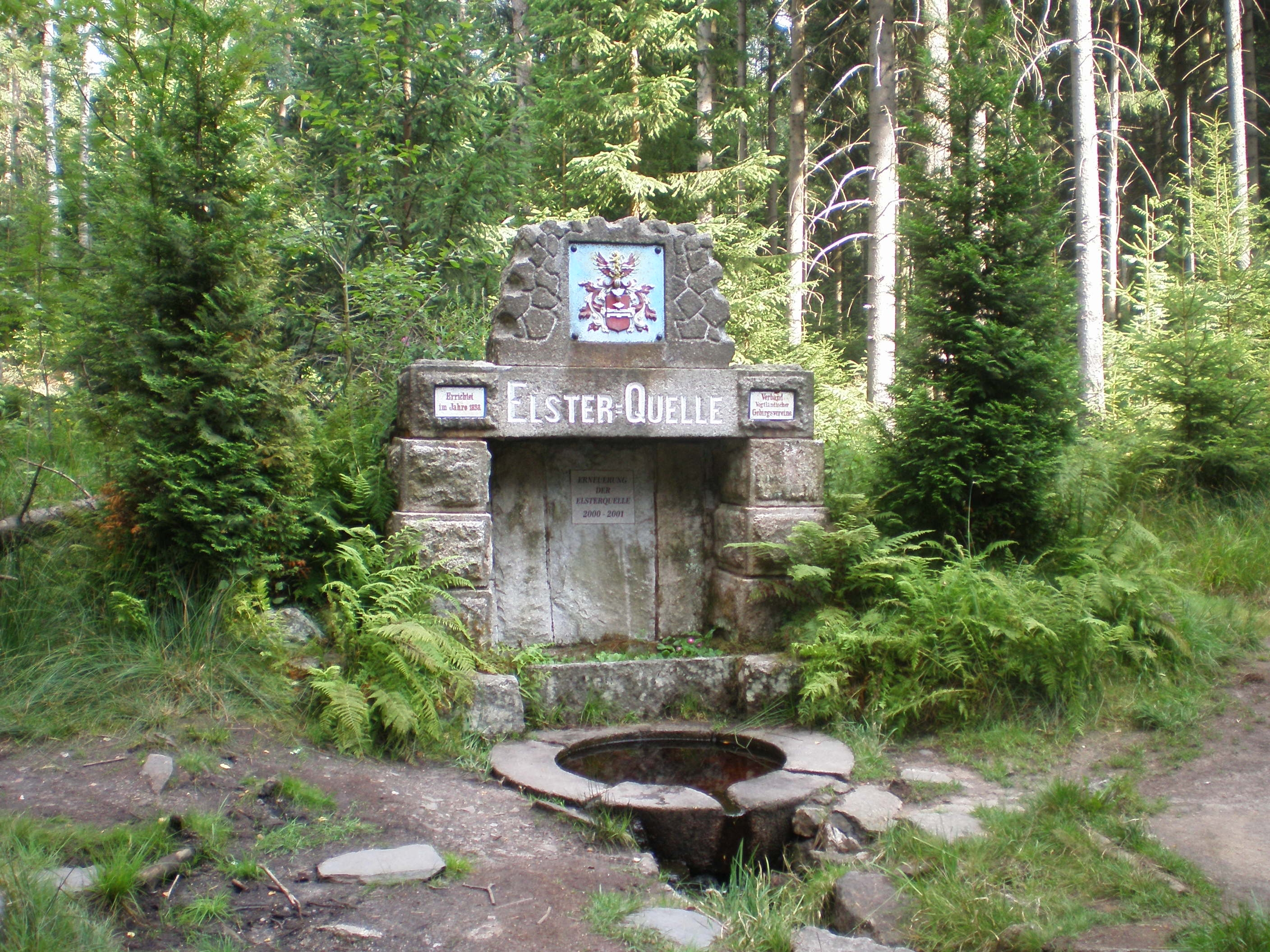 Source of the White Elster Memorial, Výhledy (Hazlov), Cheb District, Czech Republic.